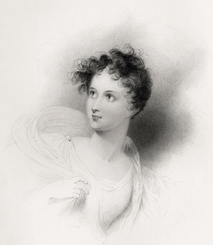 Portrait of Lady Charlotte Harley (1801-1880) as Ianthe (Lord Byron, "To Ianthe," Childe Harold's Pilgrimage).